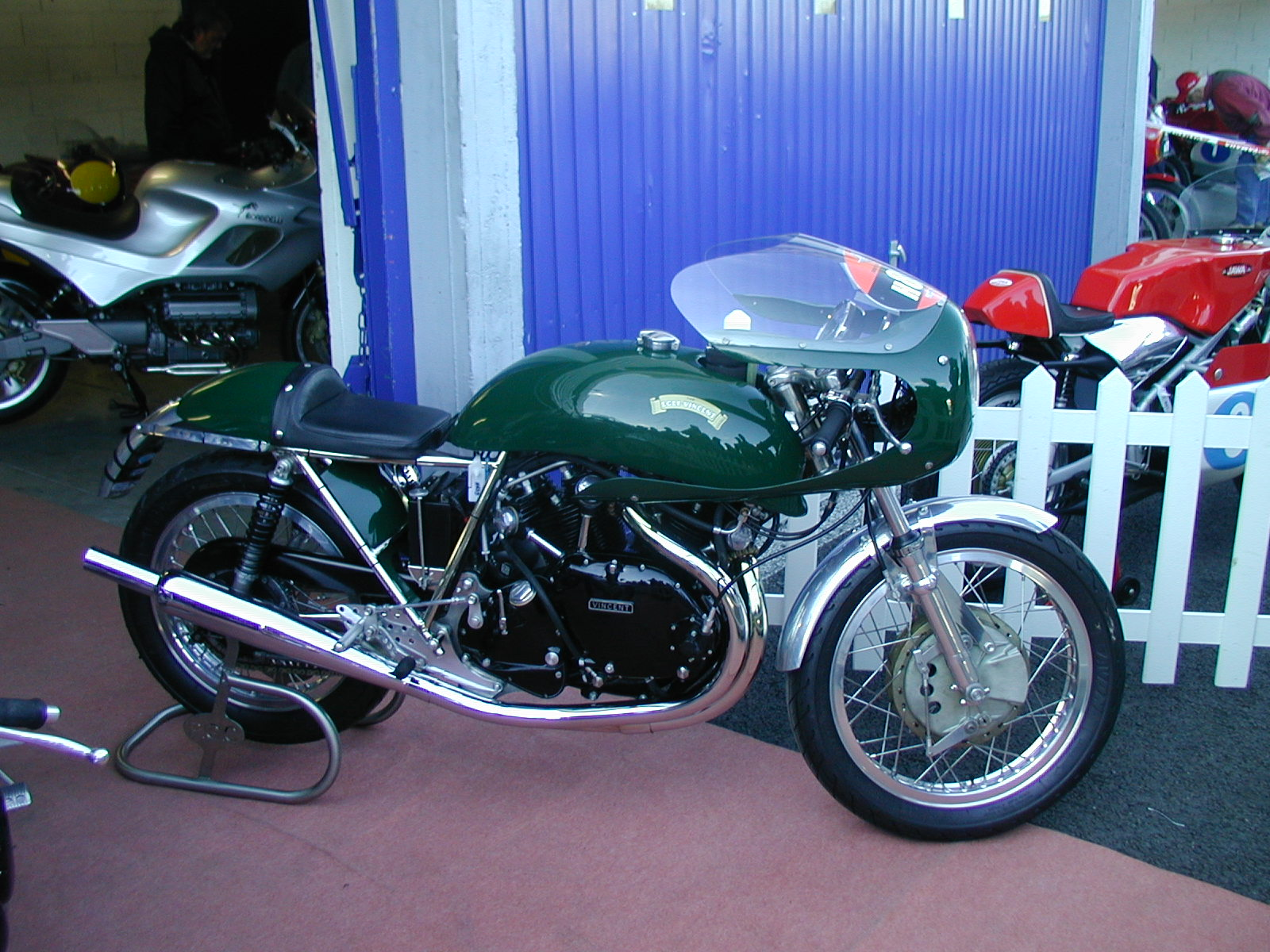 Swiss Egli-Vincent motorcycle. Picture : Gérard Delafond